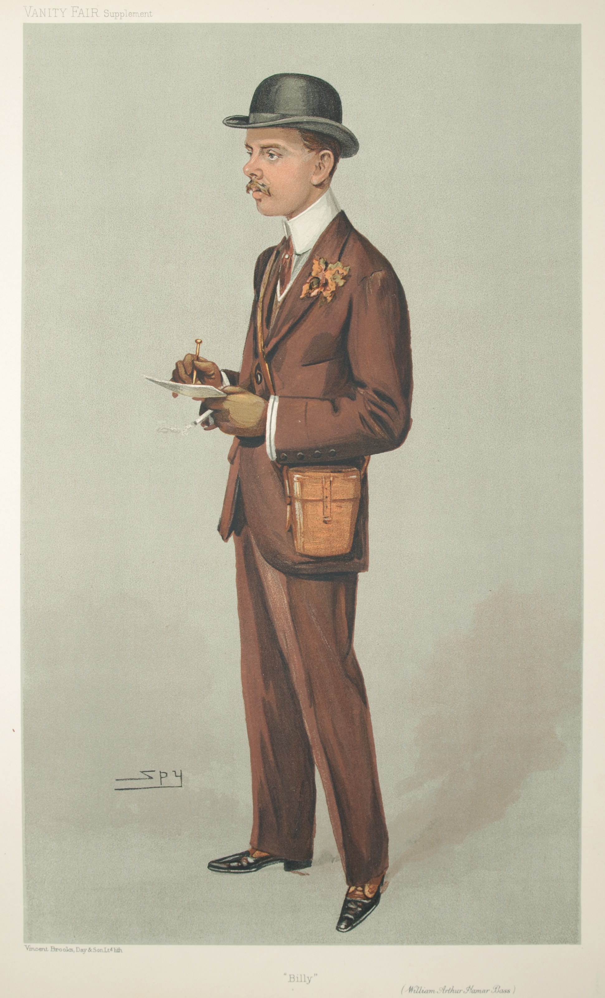 Caricature of Sir William Arthur Hamar Bass (1879-1952) : "Billy Bass".